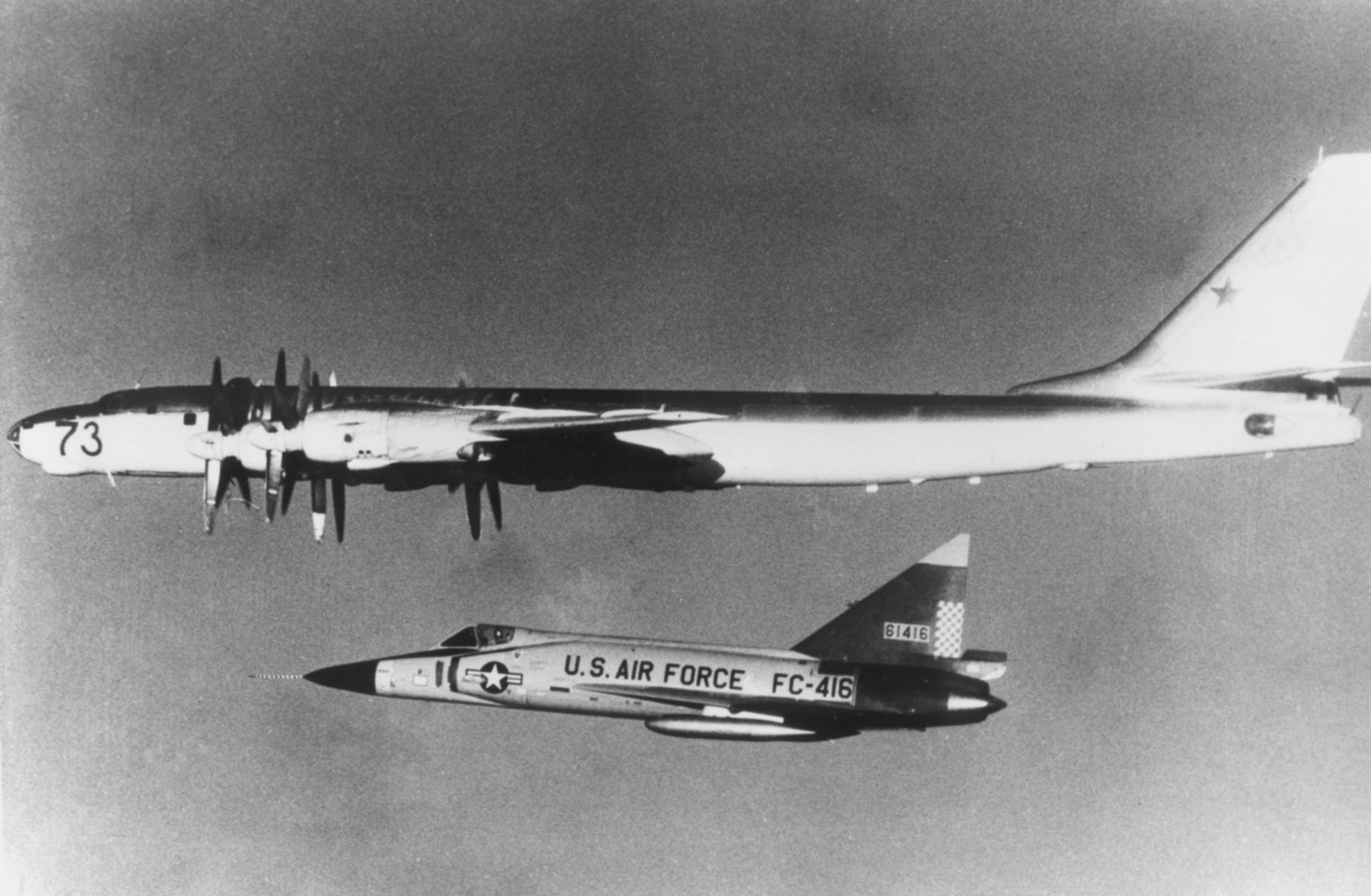 A U.S. Air Force Convair F-102A-75-CO Delta Dagger (s/n 56-1416) of the 57th Fighter Interceptor Squadron intercepting a Soviet Tupolev Tu-95 Bear bomber off the coast of Iceland in July 1970.